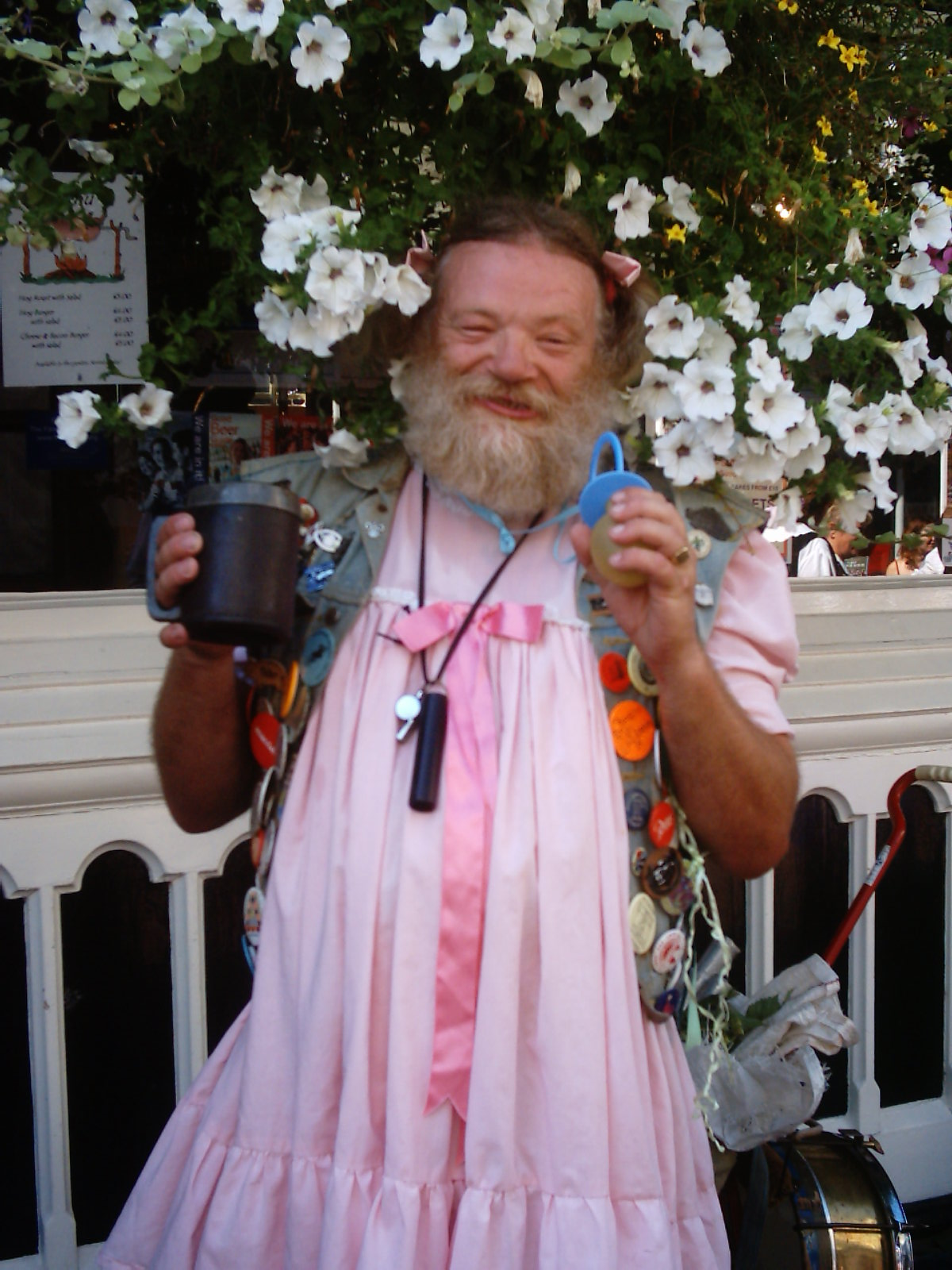 The Royal Liberty Morris 'molly'